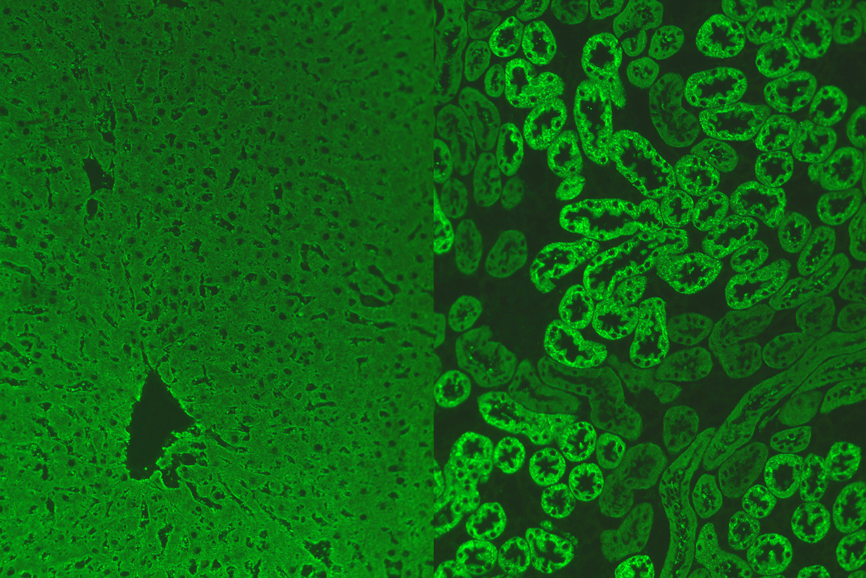 Immunofluorescence pattern of LKM1 antibodies. Produced using serum from a patient on liver (left) and kidney (right) with a FITC conjugate. Note that the proximal tubules of the kidney are stained and the distal are not.